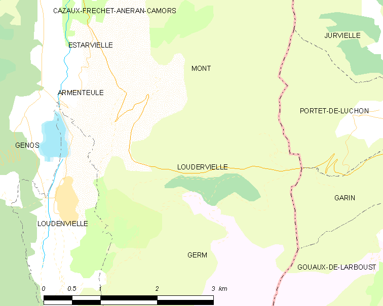 Map of French municipality